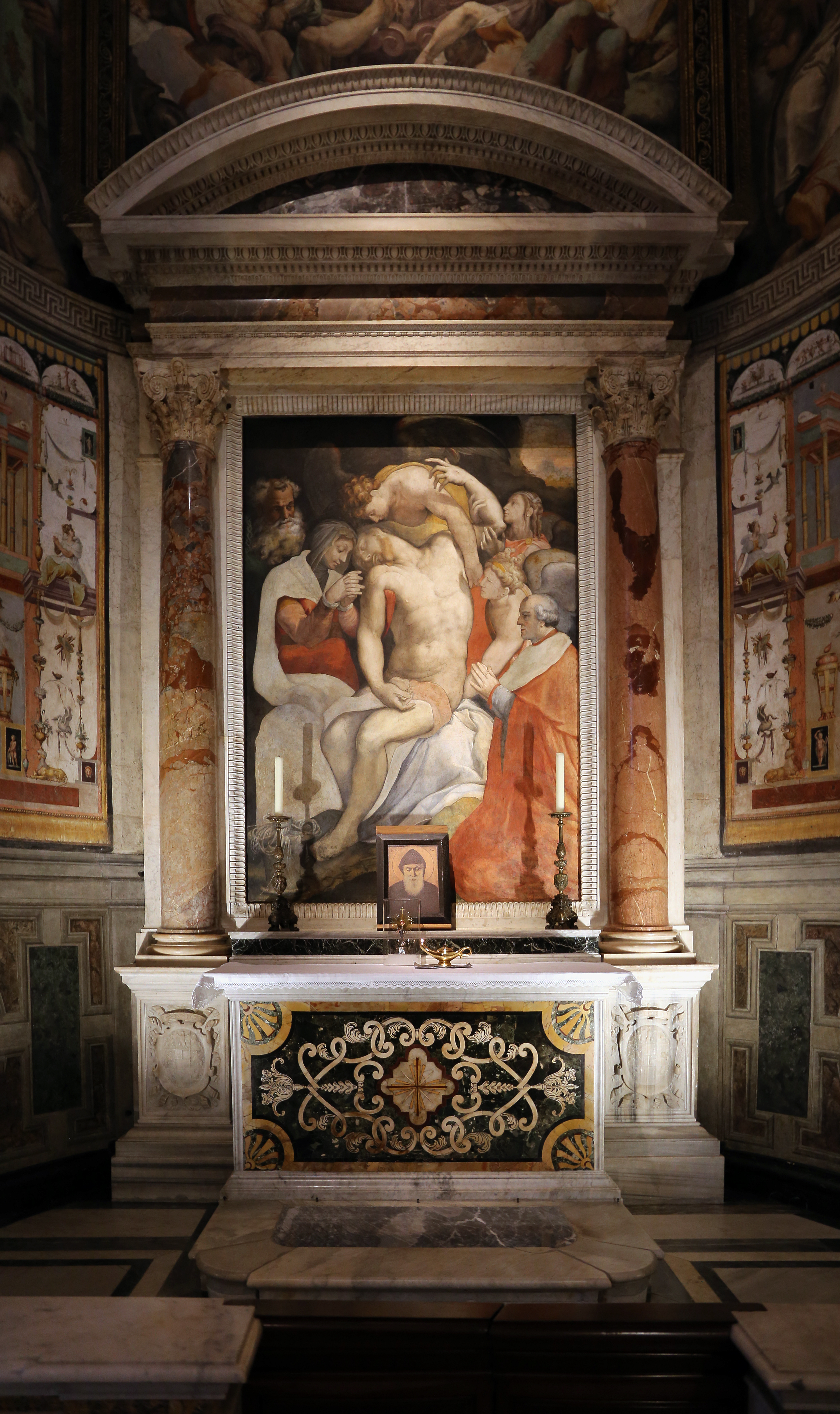 Santa Maria dell'Anima (Rome) - Interior